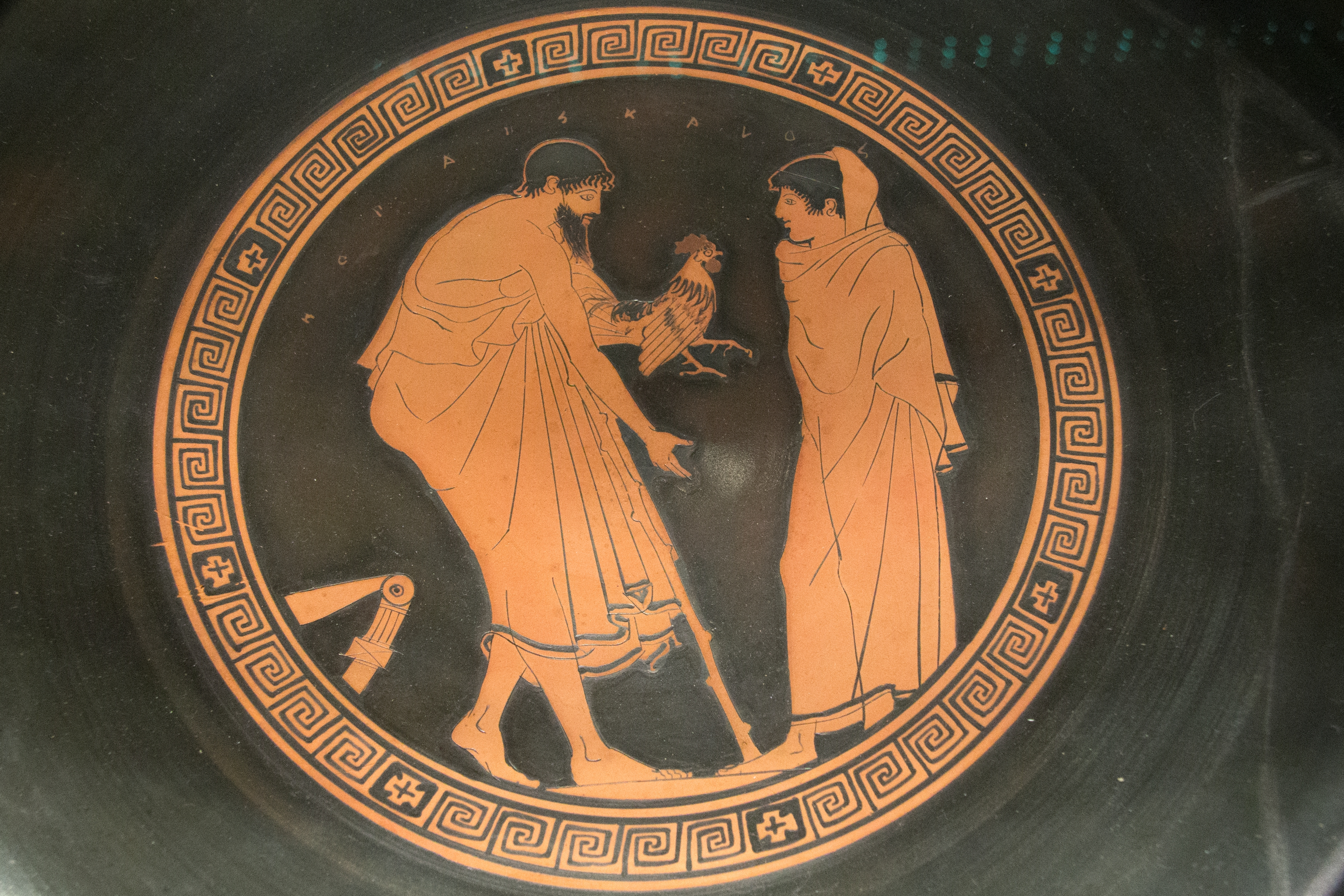 Athenian red figure pottery cup. Man offering a gift (rooster) to a boy, 5th century BC. With inscription: HO PAIS KALOS. Ashmolean Museum, Oxford, AN 1896-1908 G.279.